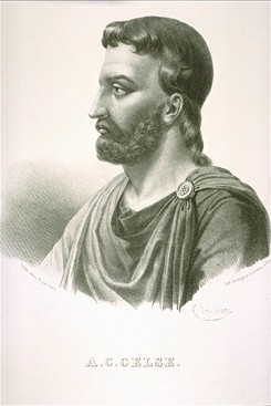 Aulus Cornelius Celsus. Lithograph; 18.3 x 17.7 cm.